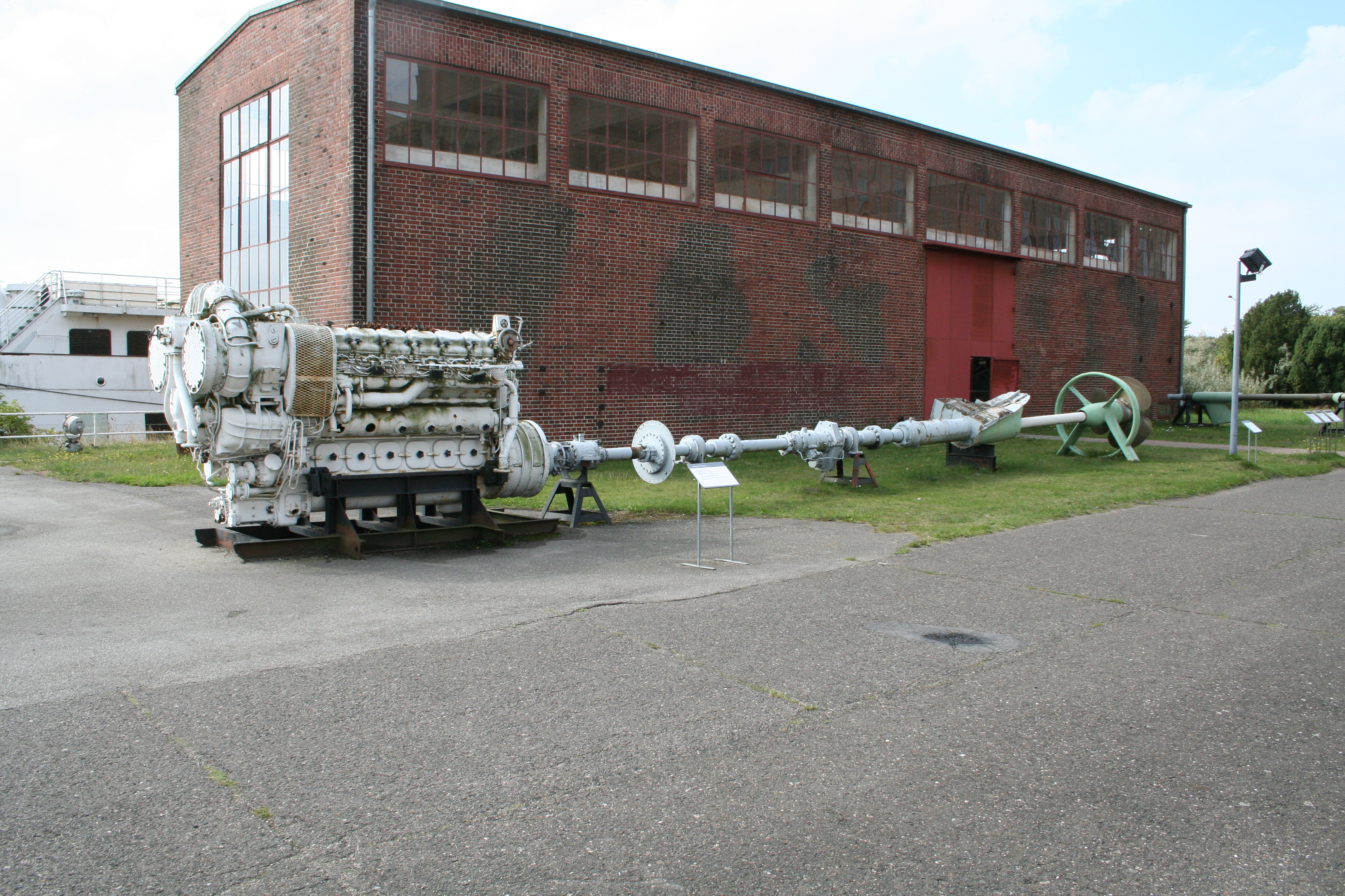 Historical Technical Museum Peenemünde